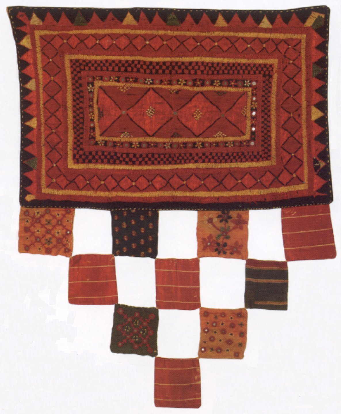 Embroidered hanging, Kutch (western India), cotton, silk mirrors and embroidery, early 20th century, Honolulu Academy of Arts